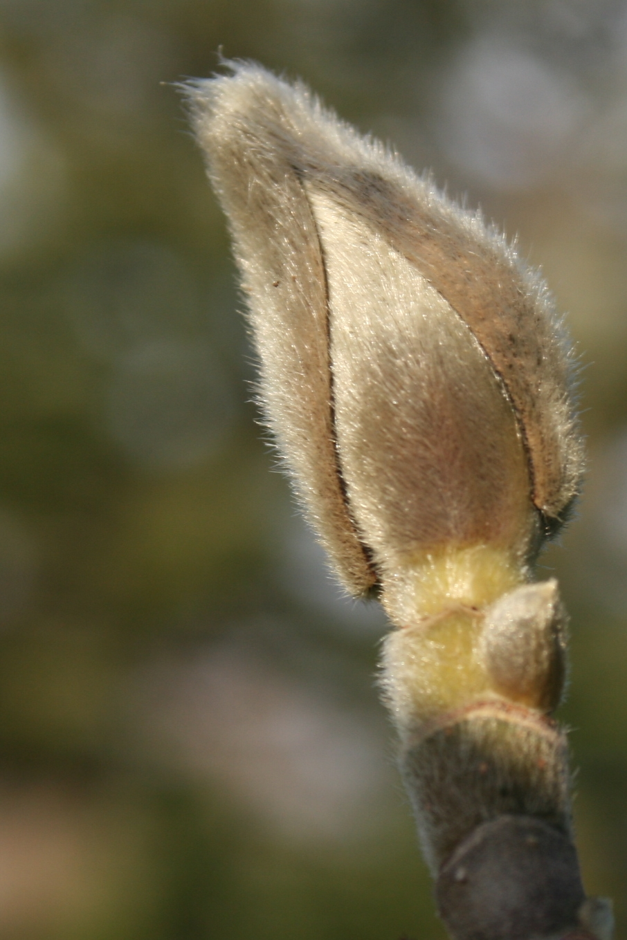 Magnolia denudata: Flower bud.